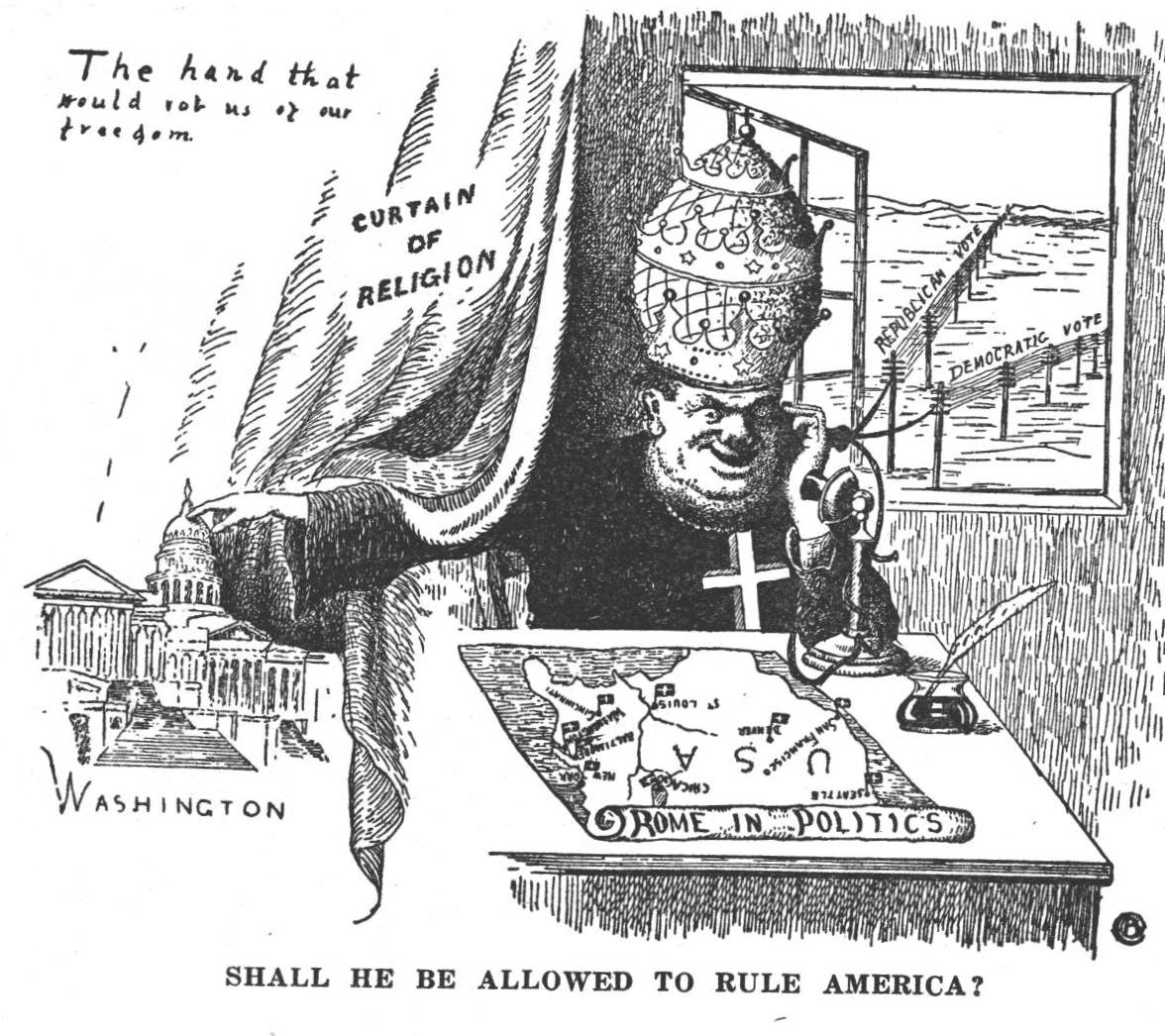 From Guardians of Liberty, 1943 by Bishop Alma Bridwell White, Illustrations by Rev. Branford Clarke. Published by the Pillar of Fire Church in Zarephath, NJ.